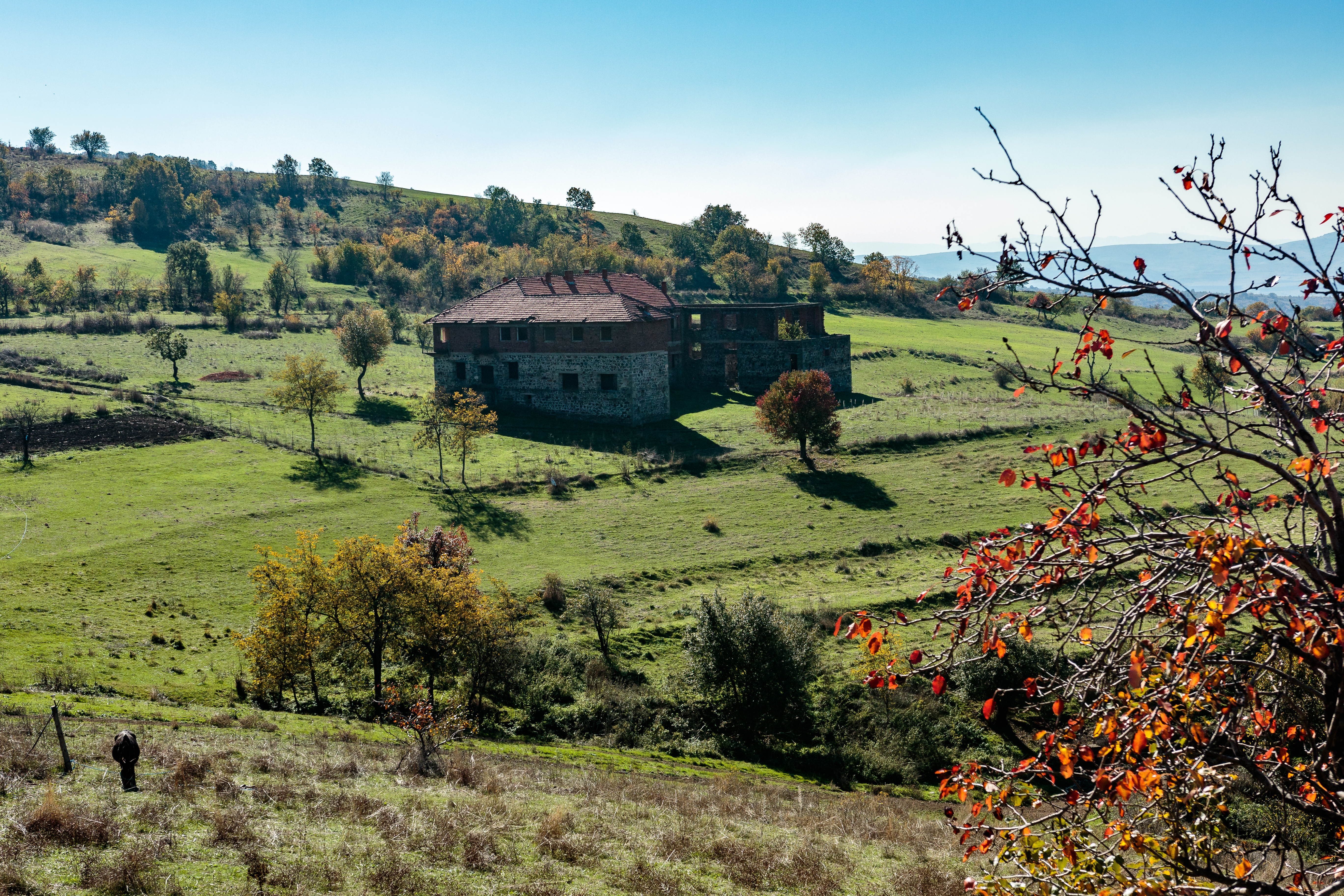 The school building in the village of Buneš, Zletovo-Probištip Region, Macedonia